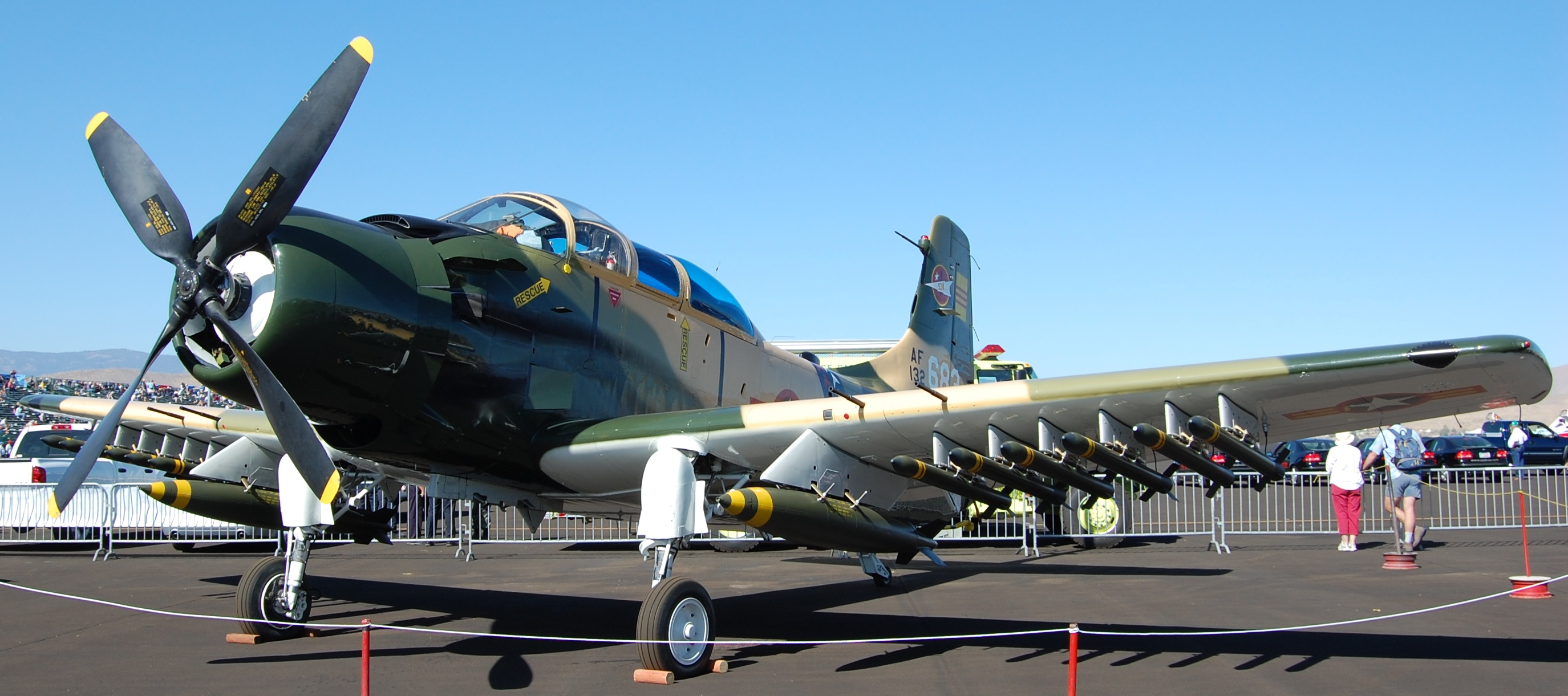 Douglas A-1E (AD-5) Skyraider, registration N39147, serial 132683, at the Reno Air Races held at Reno/Stead Airport, 2007.